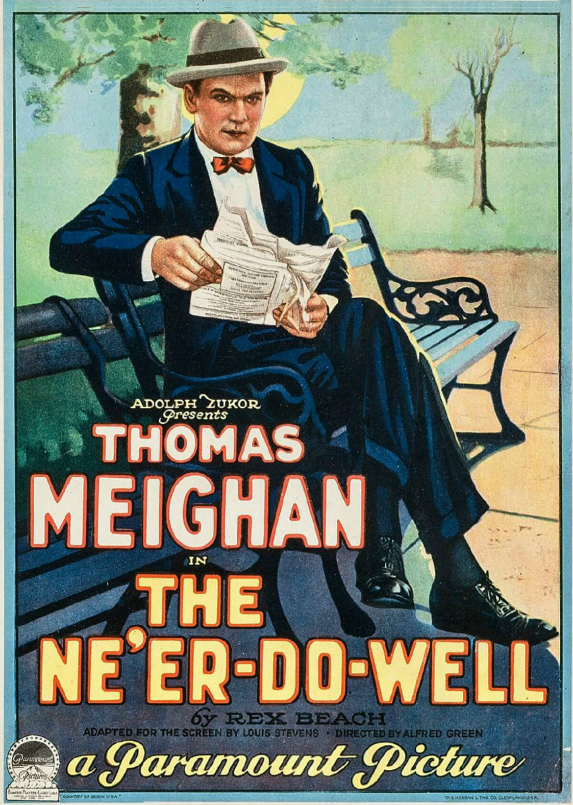 Window poster for the American film The Ne'er Do Well (1923). There are no copyright marks. At lower left (in border) is Country of origin USA. At bottom right (in border) is The Morgan Litho Co, Cleveland USA-they printed the poster.